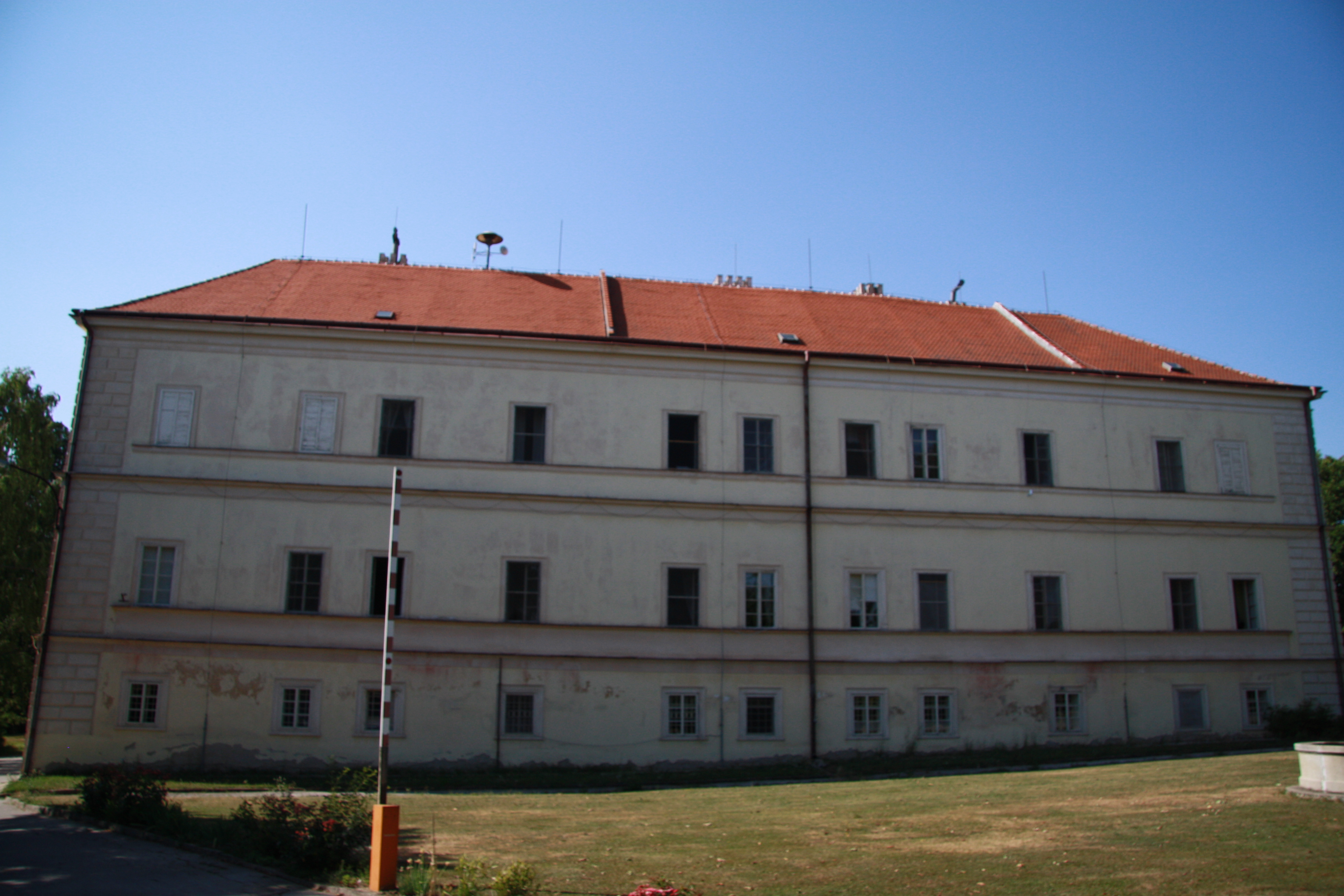 Chateau in Nové Syrovice, Třebíč District.